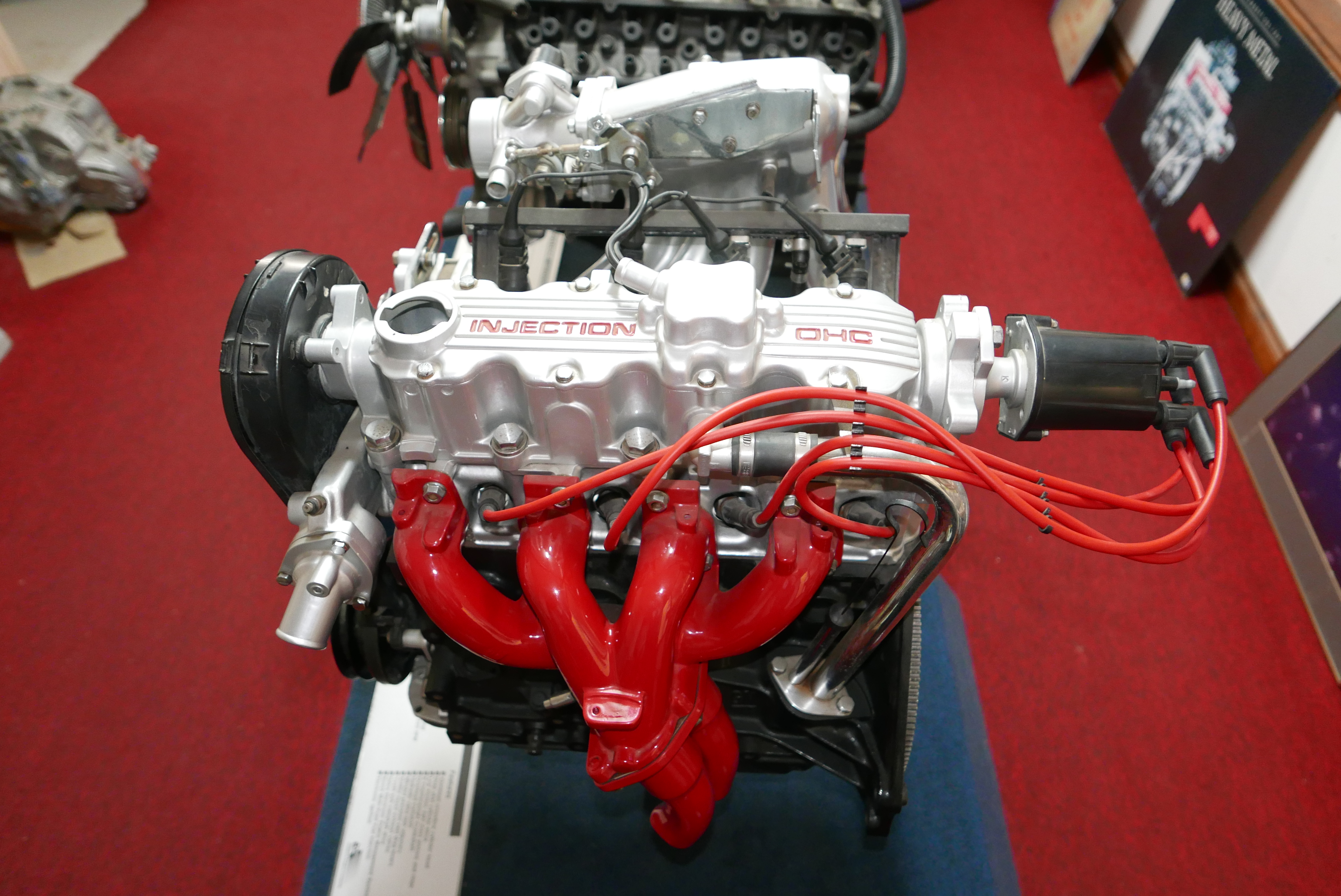 1998 cc Holden 20LE inline-four engine. Photographed at the National Holden Motor Museum, Echuca, Victoria, Australia. Specifications Bore: 86 mm (3.4 in) Stroke: 86 mm (3.4 in) Compression: 8.8:1 Power: 85 kW (114 hp) at 5200 rpm Torque: 176 N⋅m (130 lb⋅ft) at 3200 rpm Features Aluminium crossbow cylinder head Deep skirt cylinder block Low friction, light mass pistons and rings 8 counterweight crankshaft Overhead camshaft Hydraulic valve lash adjusters Nitrided precision cast drag levers Stellite faced exhaust valves Tooth belt camshaft drive Delco electronic engine management system Bosch multi-point fuel injection Electronic ignition